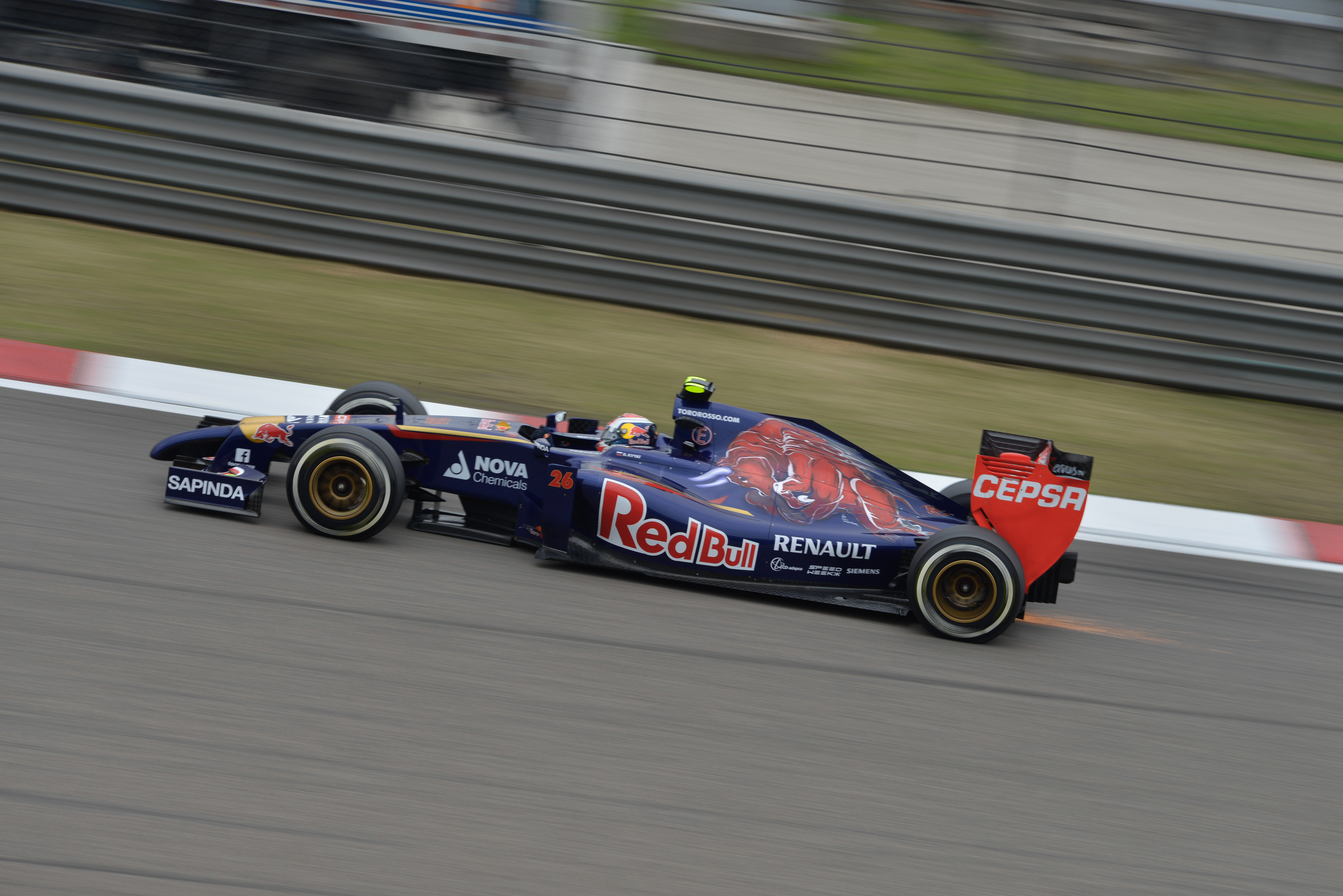 Daniil Kvyat (Toro Rosso)